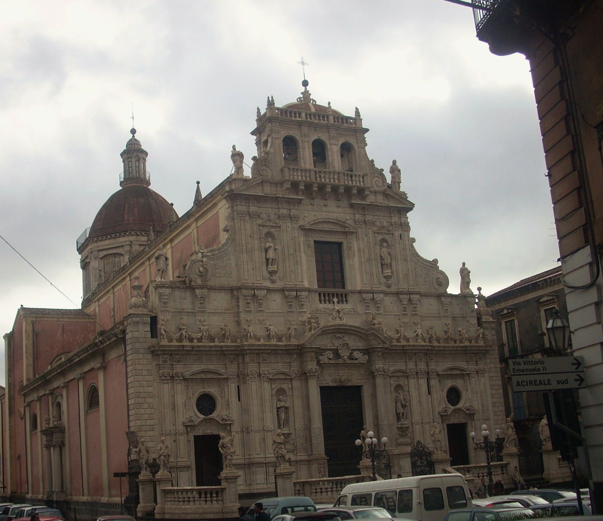 St. Sebastian's Basilica, Acireale. In the Baroque style.